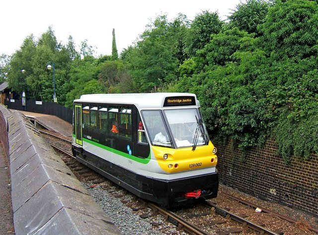 Parry People Mover 139 002 leaving Stourbridge Town Railway Station